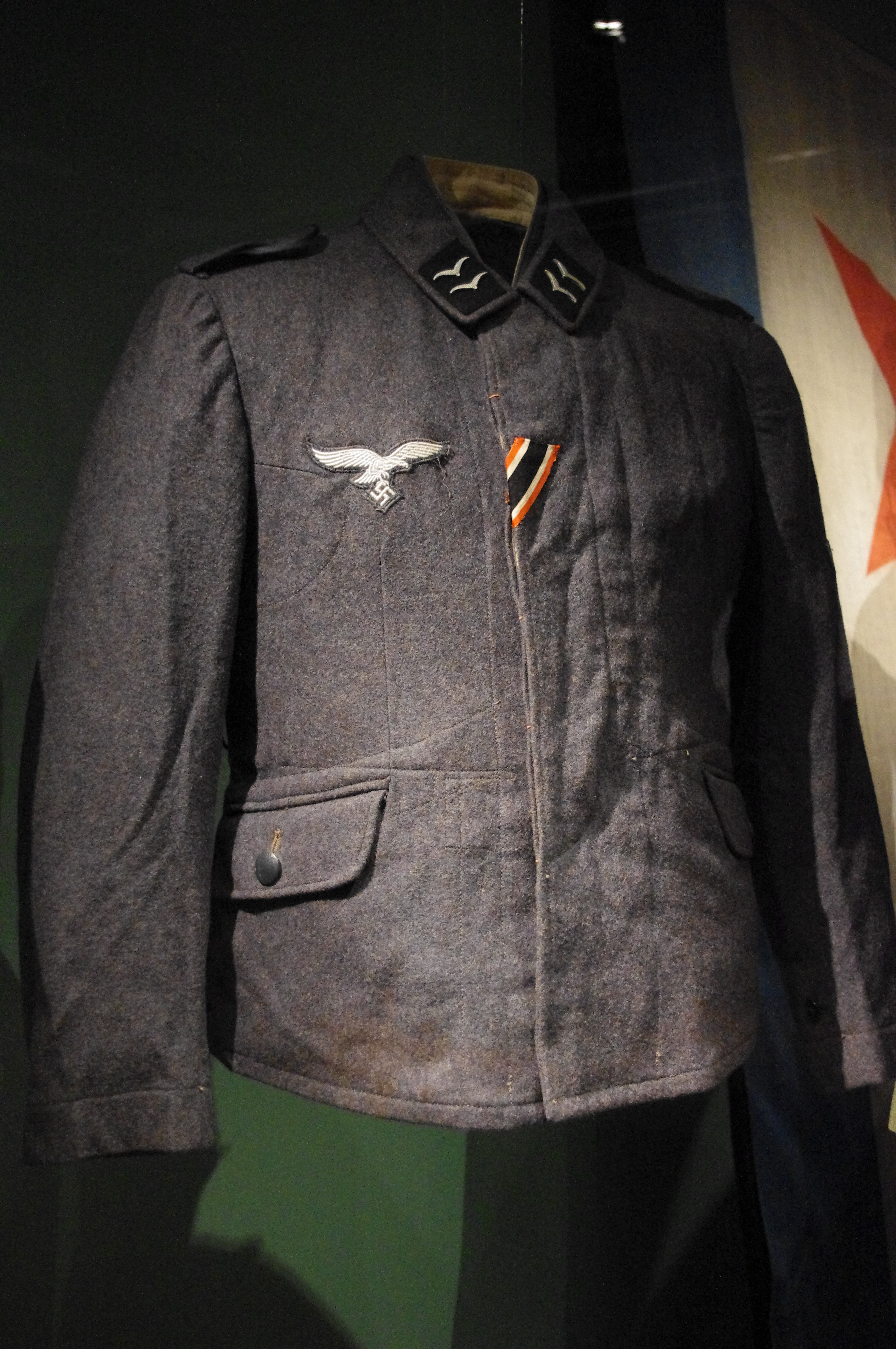 Pilot's blouse (Gefreiter) for the air force, Germany. This item of clothing was found in Norway after the end of German occupation.